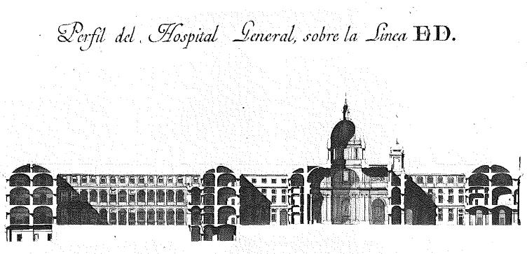 Longitudinal section drawn by Francisco Sabatini to the General Hospital of Madrid